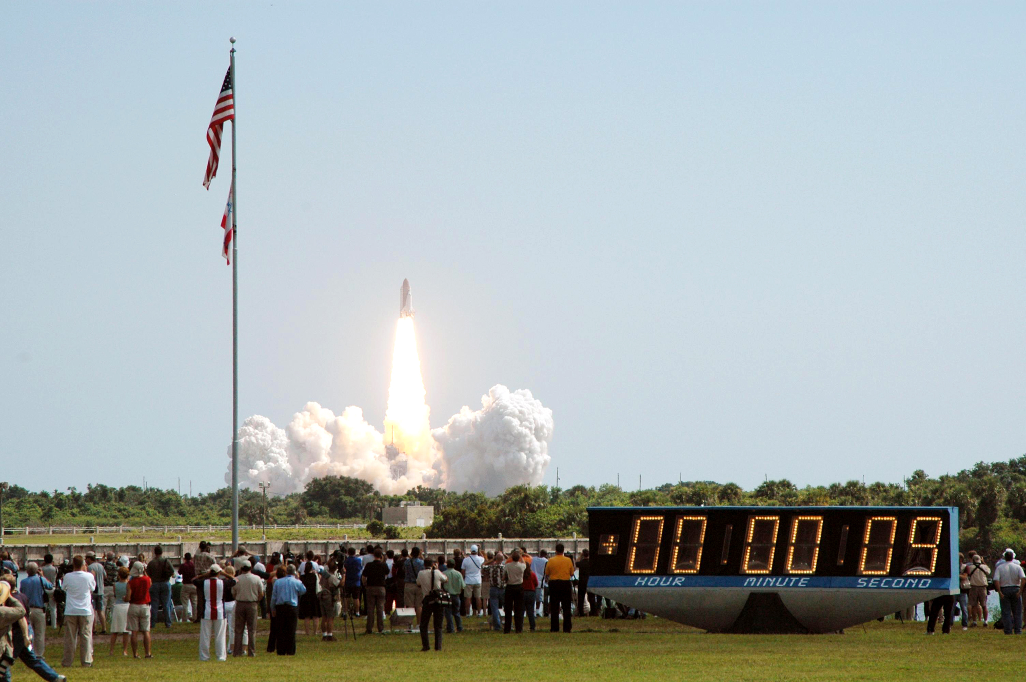 Space Shuttle Discovery rose from the pad at Kennedy Space Center, Fla., 10:39 a.m., July 26, 2005 on mission STS-114. This is the fourth shuttle flight for Commander Eileen Collins, a retired U.S. Air Force colonel who became the first woman to command a shuttle mission in 1999. The seven-member crew will test new safety procedures and deliver supplies to the International Space Station. NASA photo